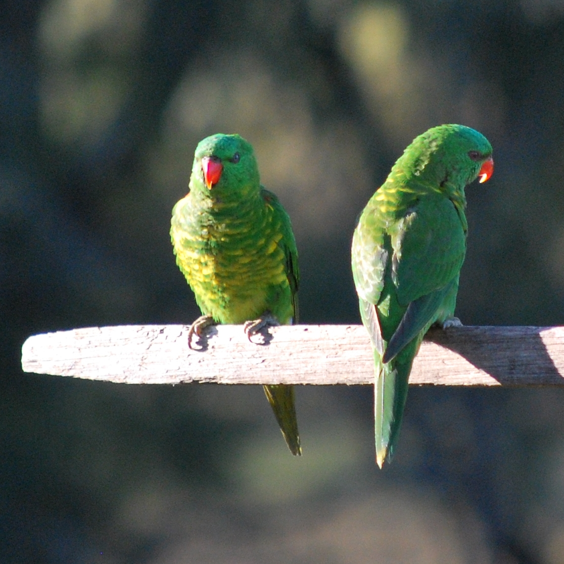 A Scaly-breasted Lorikeet - two by a fence rail in Australia.